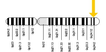 ABO gene. Cytogenetic Location: 9q34.2 The ABO gene is located on the long (q) arm of chromosome 9 at position 34.2. More precisely, the ABO gene is located from base pair 133,255,175 to base pair 133,275,213 on chromosome 9.